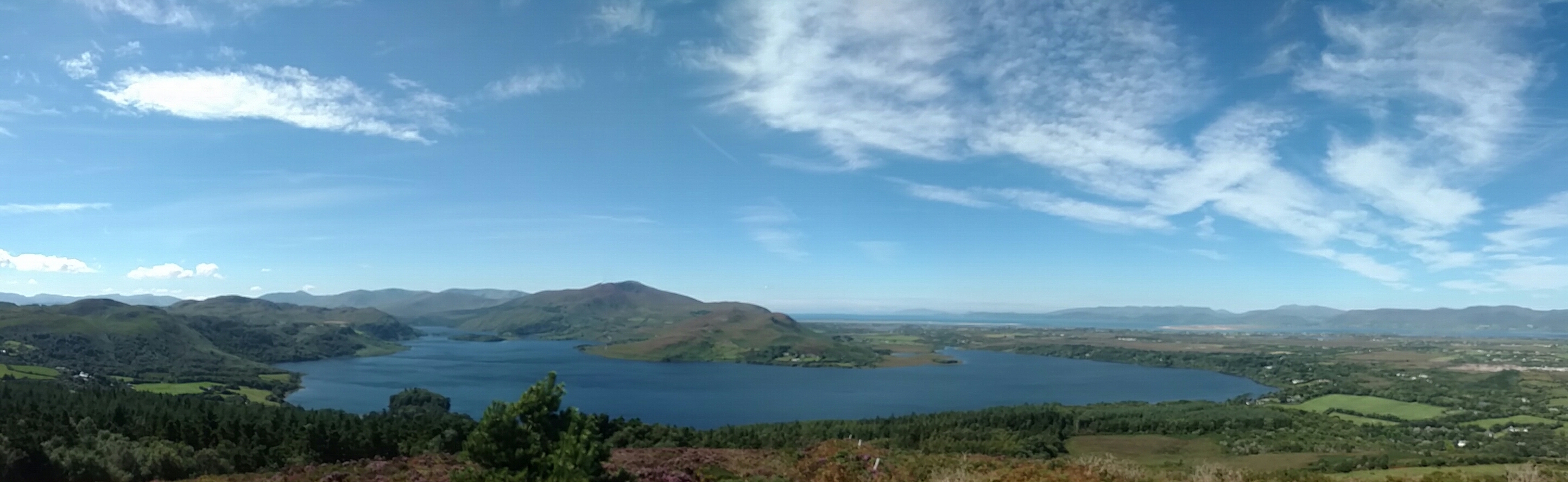 This is the view of Caragh Lake out towards the Dingle bay from the forestry.